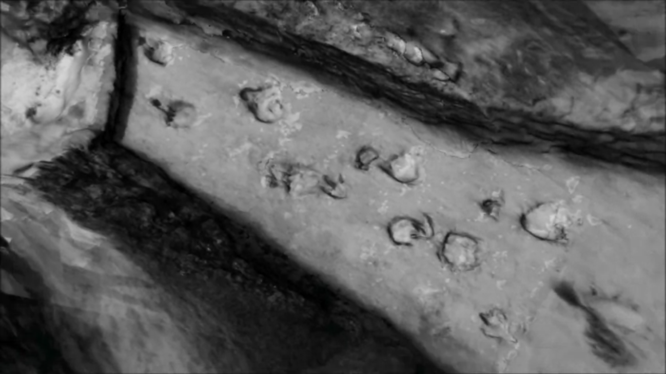 Still image from a video accompanying a 2014 scientific paper